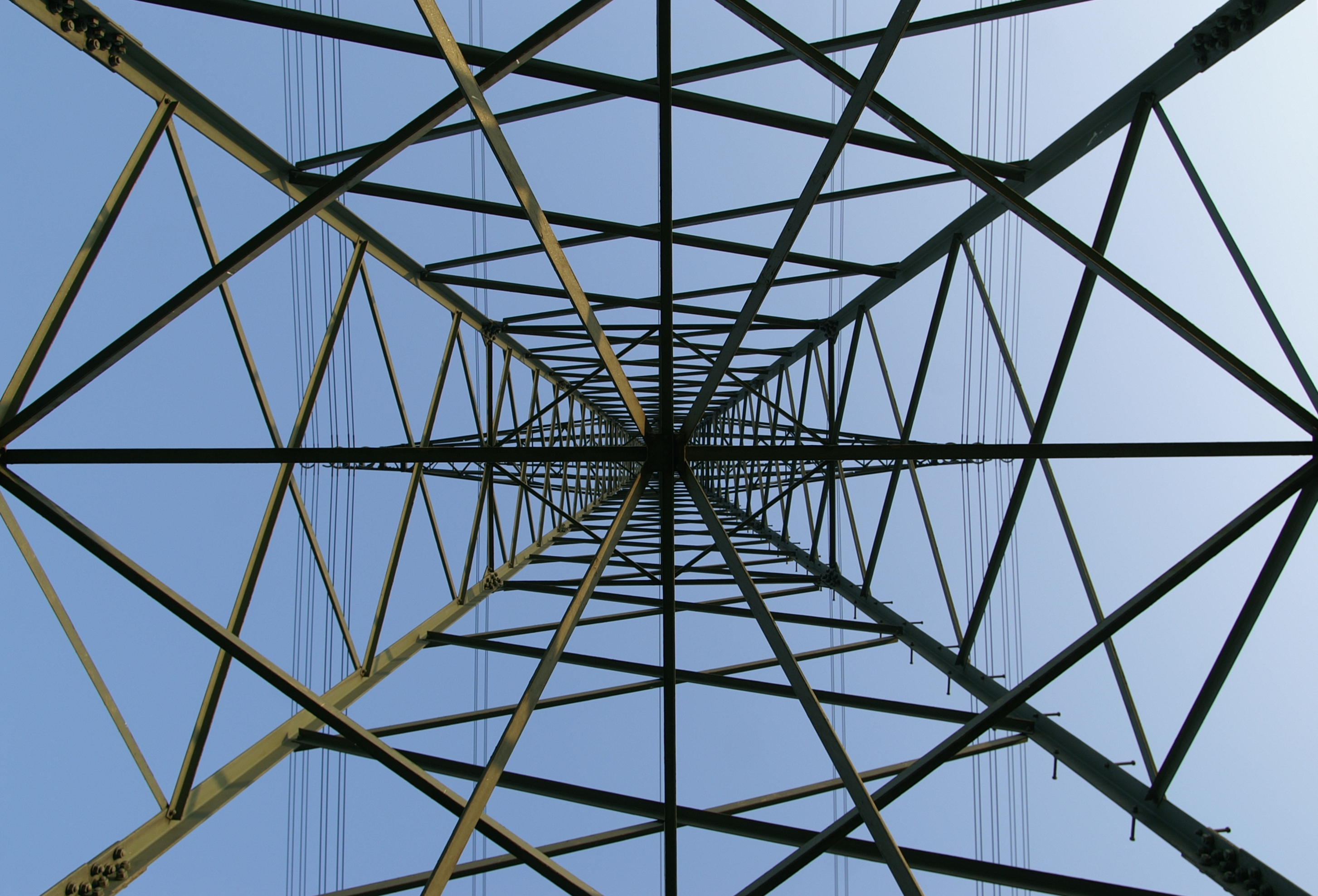 Cross section of a powerline, owned by Power Generation Ltd in Schlins Vorarlberg, Austria.